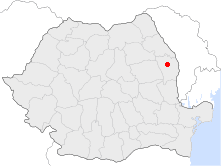 Location of Vaslui in Romania.